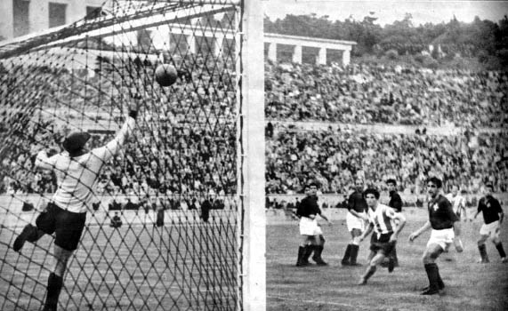 A successful free kick by Ernesto Grillo becomes the 2nd goal for Argentina v Portugal, at Lisbon.